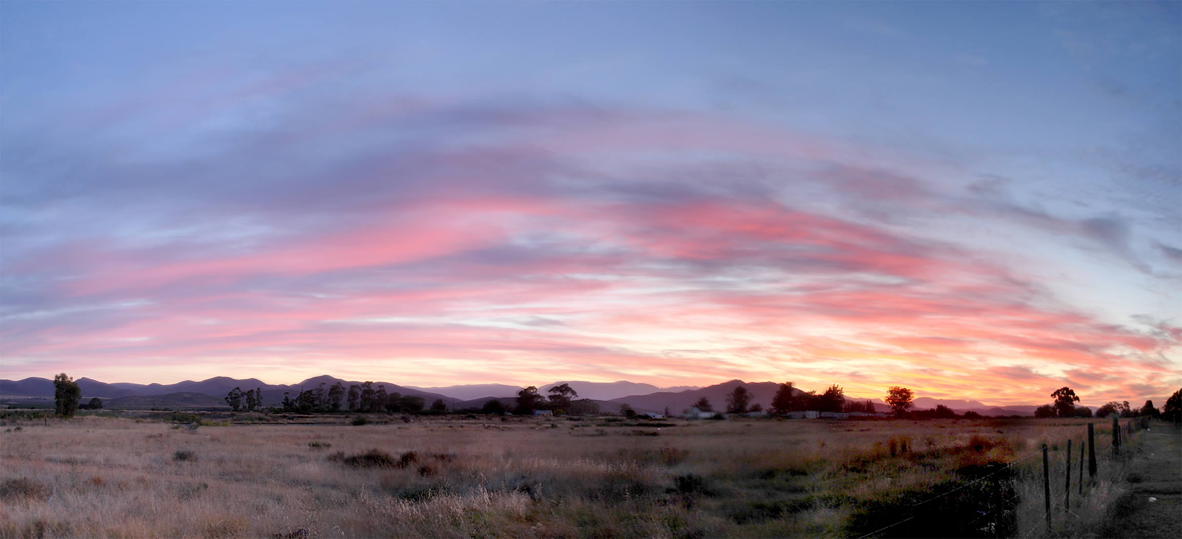 On our journey back to Cape Town we stopped just outside of Ashton to take some shots of the first sunset of 2007 - and boy was it a site to behold!